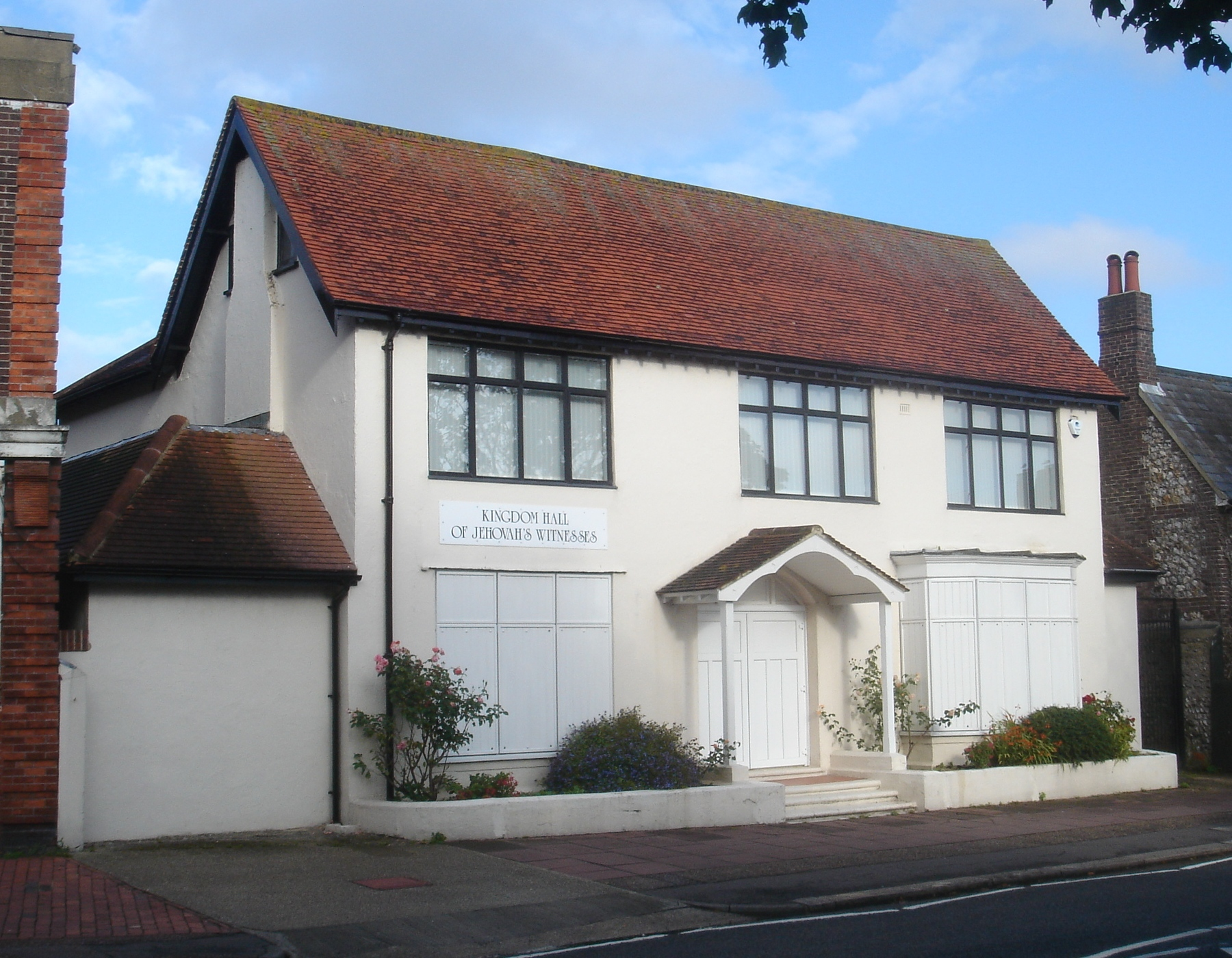 Jehovah's Witnesses Kingdom Hall, 140 South Street, West Tarring, Worthing, West Sussex, England. Used for worship by that community since 1992.